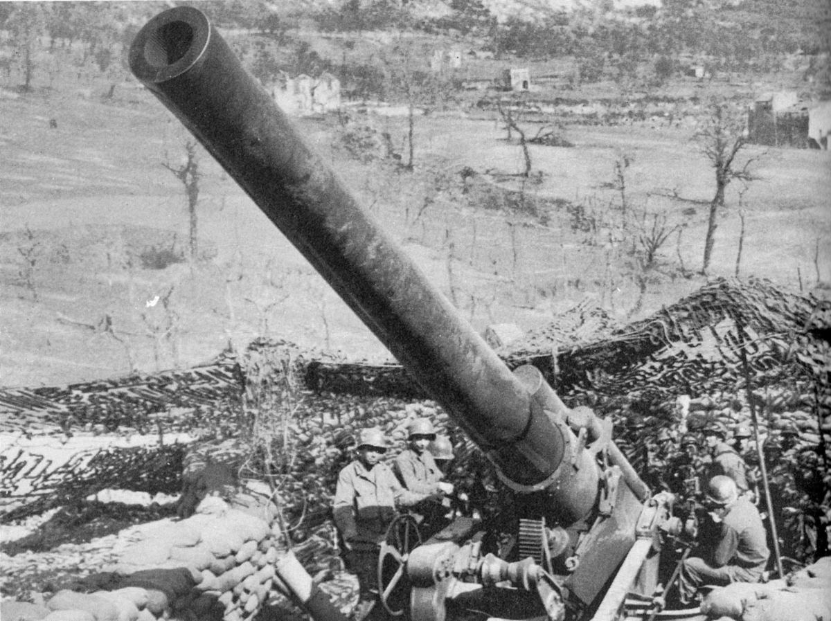 American howitzer near Monte Cassino, Italy